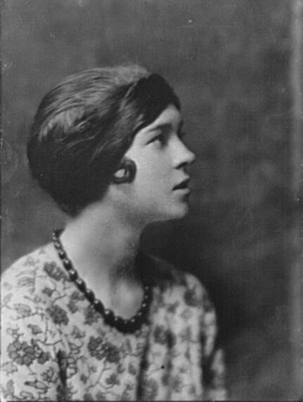 Arnold Genthe (1869-1942)/LOC agc.7a14724. Eva Le Gallienne, not before 1916